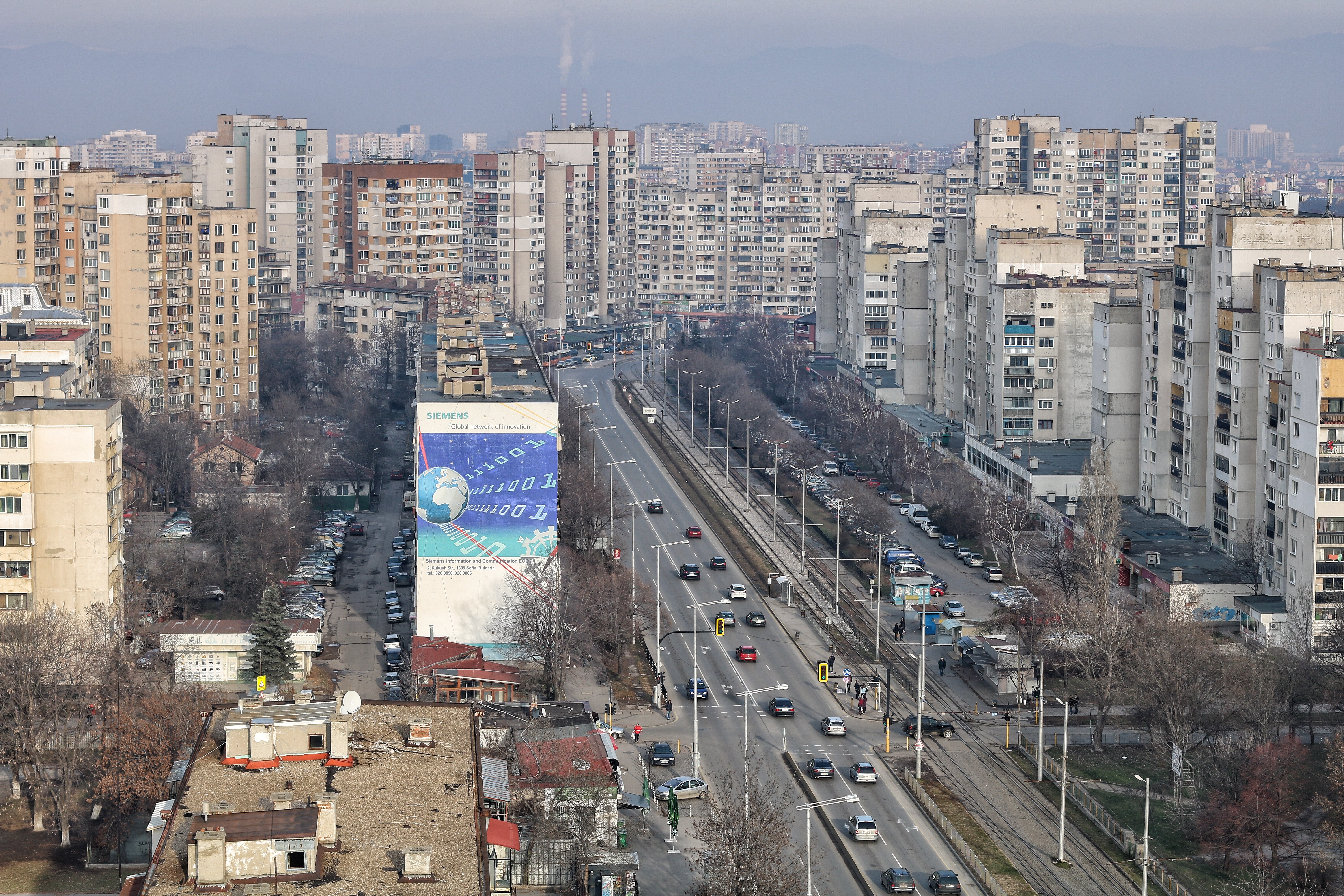 Krasna poliana, Sofia, Bulgaria